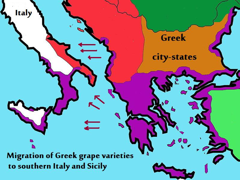 Migration of Greek grape varieties to Southern Italy